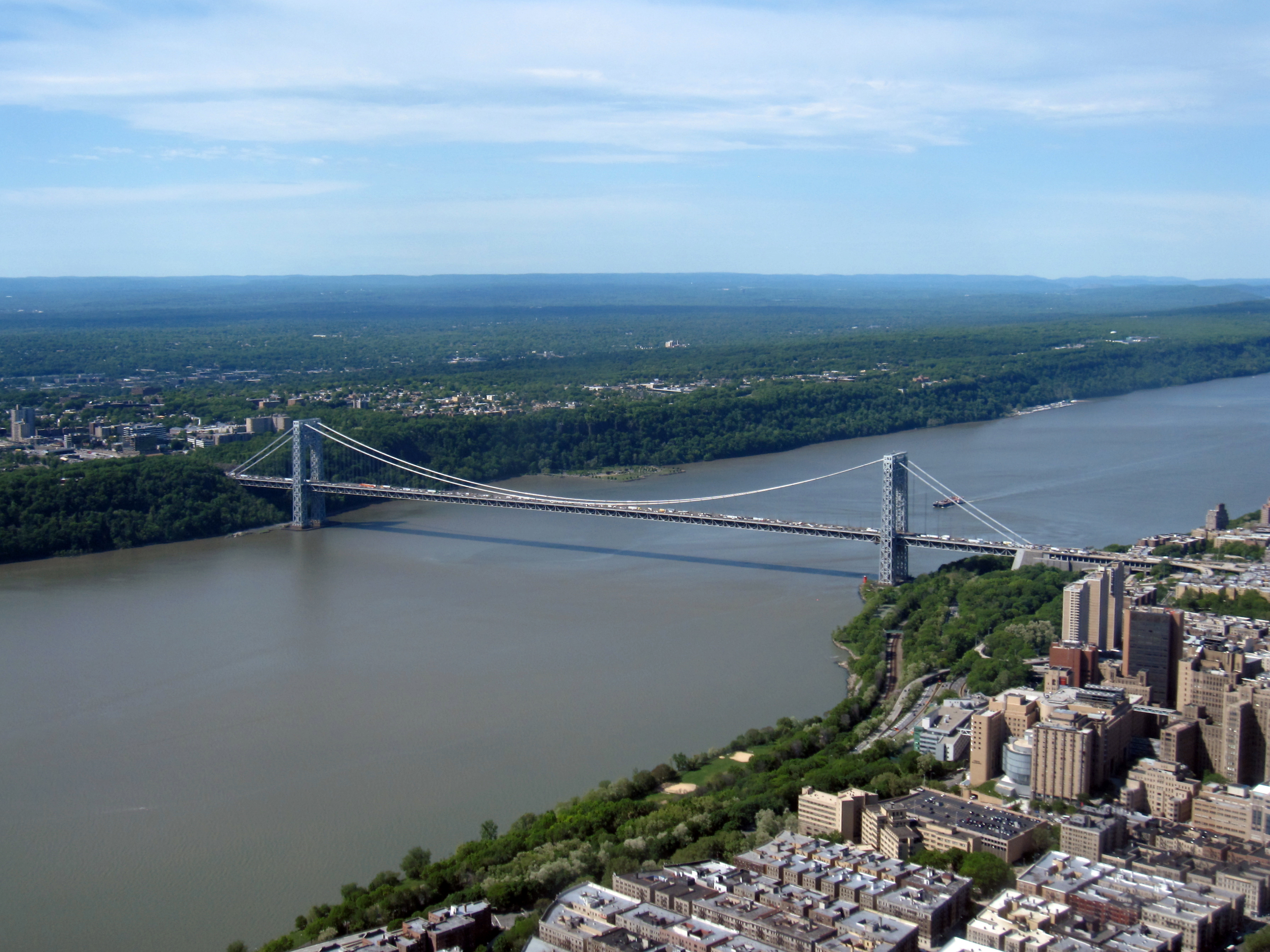 George Washington Bridge